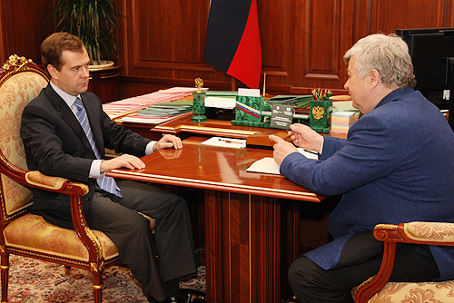 THE KREMLIN, MOSCOW. With President of the Russian Journalists’ Union Vsevolod Bogdanov.